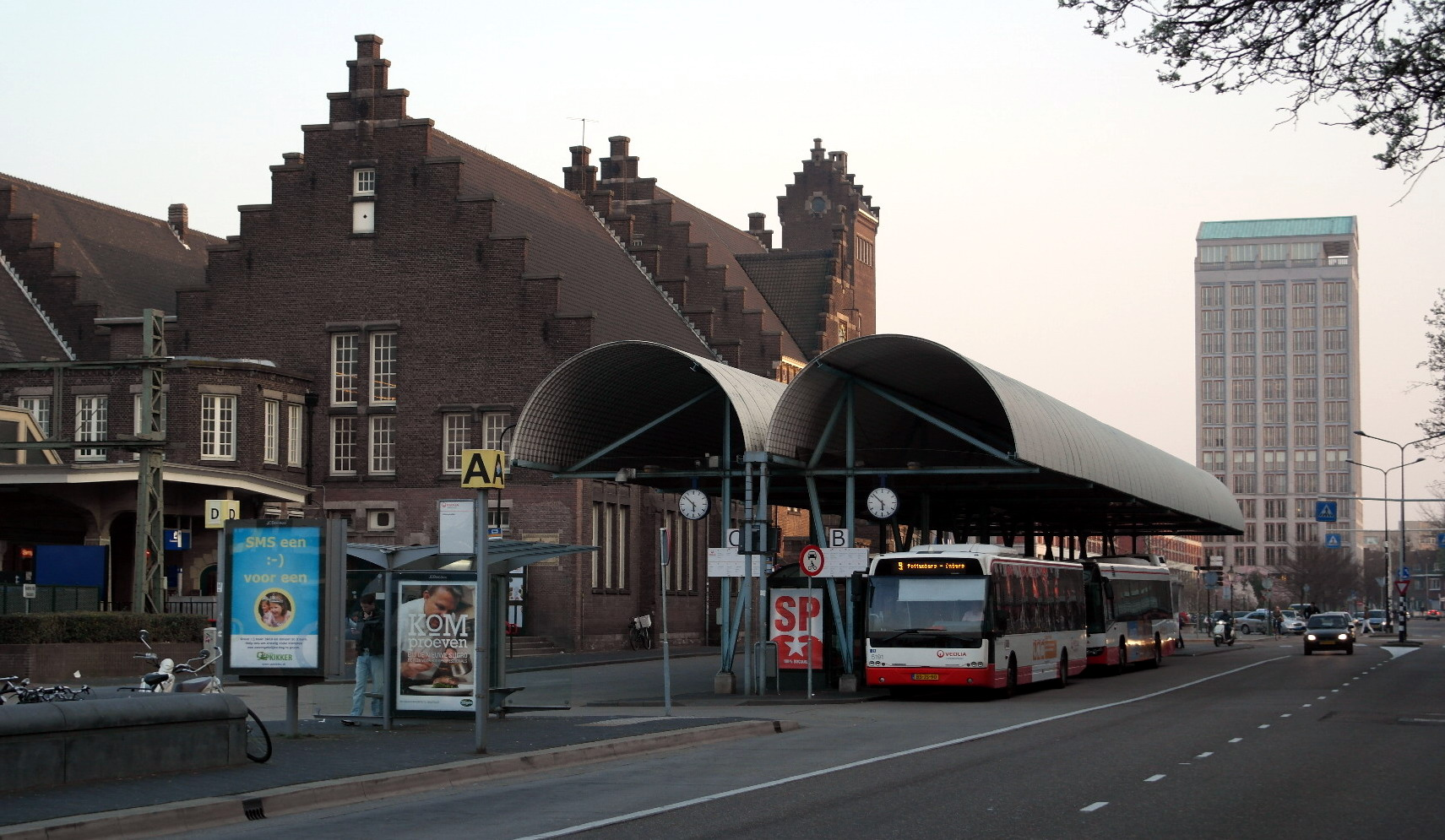 Maastricht, the Netherlands. View of Stationsplein with the main train and bus station. In the bakground the Colonel office tower.